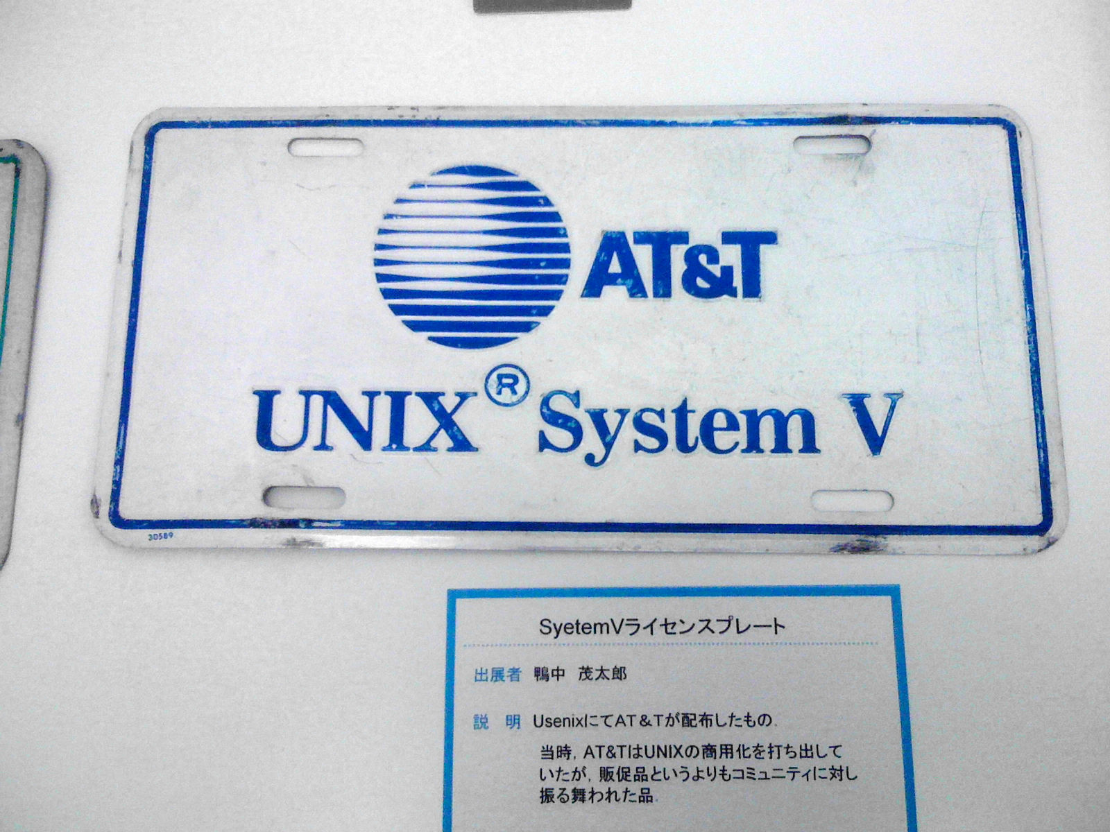 AT&T UNIX System V license plate, displayed in Japan.